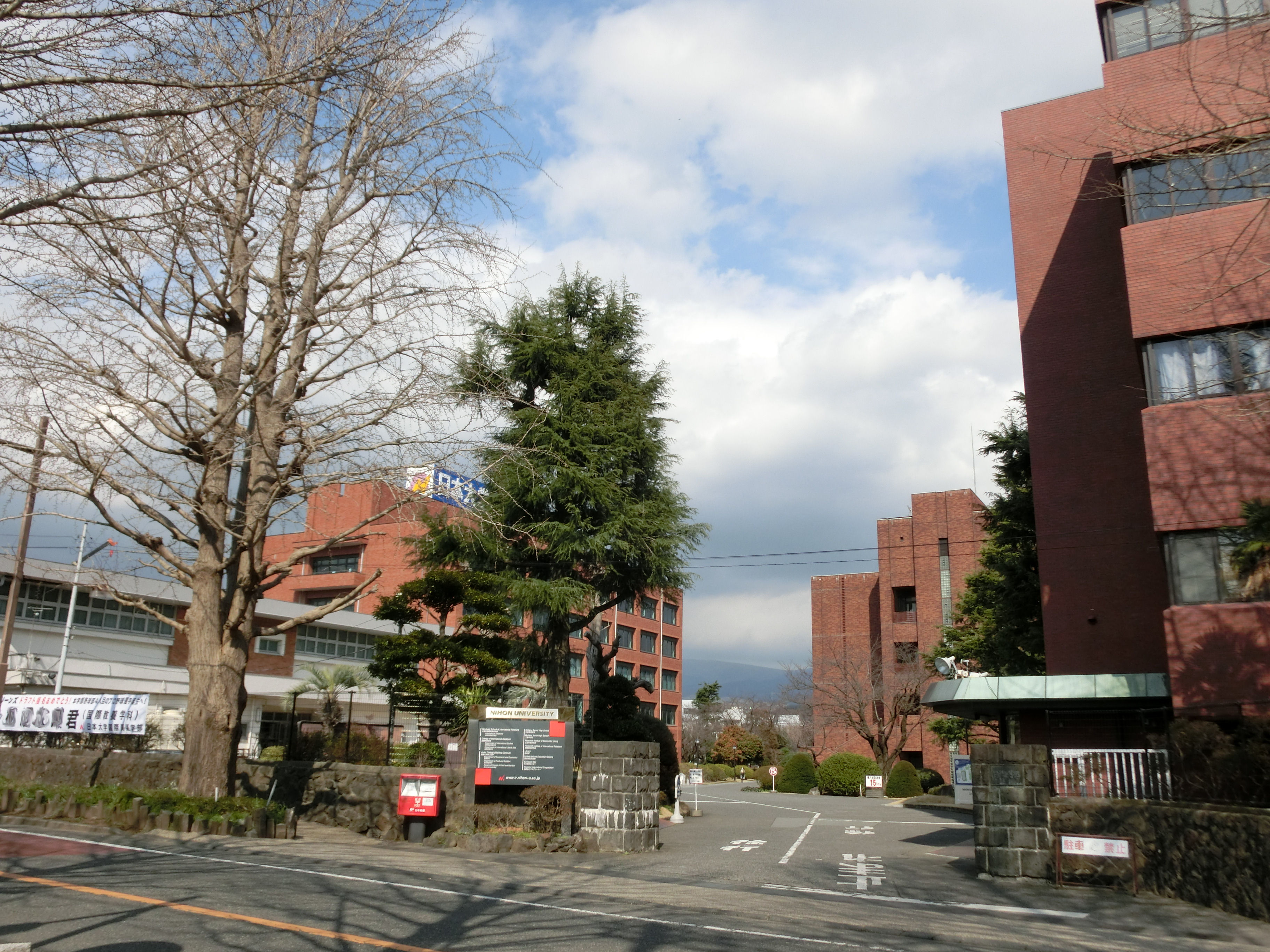 Nihon University Mishima Campus